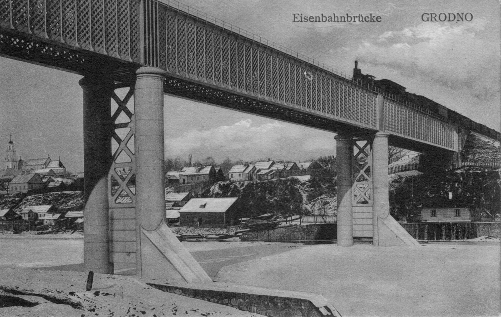 Railway bridge across Neman river in Hrodna, Belarus. Postcard made in 1915.